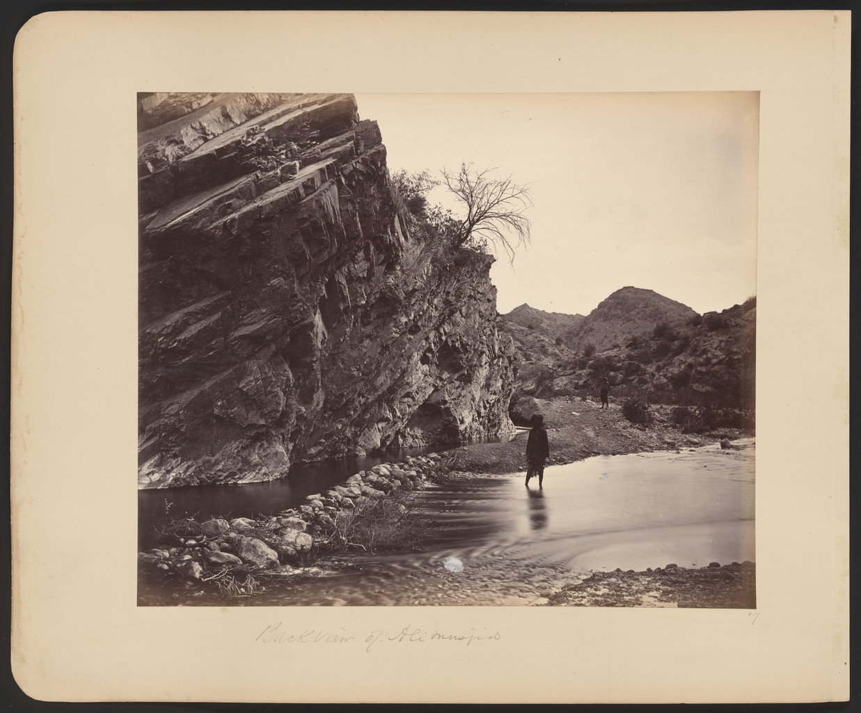 This photograph of Ali Masjid is from an album of rare historical photographs depicting people and places associated with the Second Anglo-Afghan War. Ali Masjid is located at the narrowest point in the Khyber Pass. It contains a shrine to ʻAlī ibn Abī Ṭālib (circa 600–661), the nephew and son-in-law of the Prophet Muhammad, and a fortress built in 1837 by the Afghan amir, Dōst Mohammad Khān (1793–1863). The shrine and fort are located in extremely rugged terrain overlooking a deep gorge. The figures in the foreground, one standing in a shallow riverbed, are not identified. The Second Anglo-Afghan War began in November 1878 when Great Britain, fearful of what it saw as growing Russian influence in Afghanistan, invaded the country from British India. The first phase of the war ended in May 1879 with the Treaty of Gandamak, which permitted the Afghans to maintain internal sovereignty but forced them to cede control over their foreign policy to the British. Fighting resumed in September 1879, after an anti-British uprising in Kabul, and finally concluded in September 1880 with the decisive Battle of Kandahar. The album includes portraits of British and Afghan leaders and military personnel, portraits of ordinary Afghan people, and depictions of British military camps and activities, structures, landscapes, and cities and towns. The sites shown are all located within the borders of present-day Afghanistan or Pakistan (a part of British India at the time). About a third of the photographs were taken by John Burke (circa 1843–1900), another third by Sir Benjamin Simpson (1831–1923), and the remainder by several other photographers. Some of the photographs are unattributed. The album possibly was compiled by a member of the British Indian government, but this has not been confirmed. How it came to the Library of Congress is not known. Afghan Wars; Gorges; Khyber Pass (Afghanistan and Pakistan); Mountain passes; Mountains; Streams